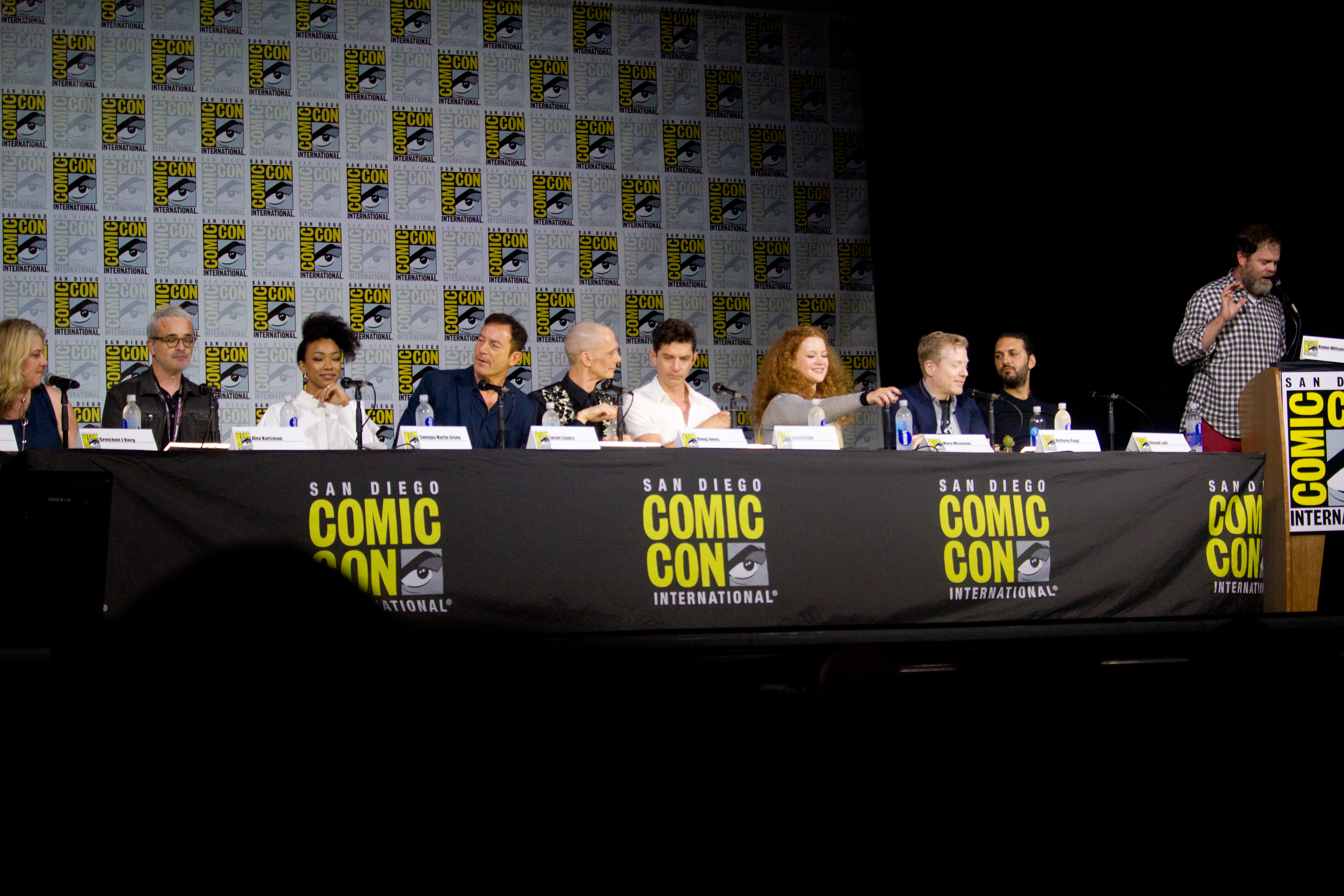 Cast & creators panel at SDCC 2017